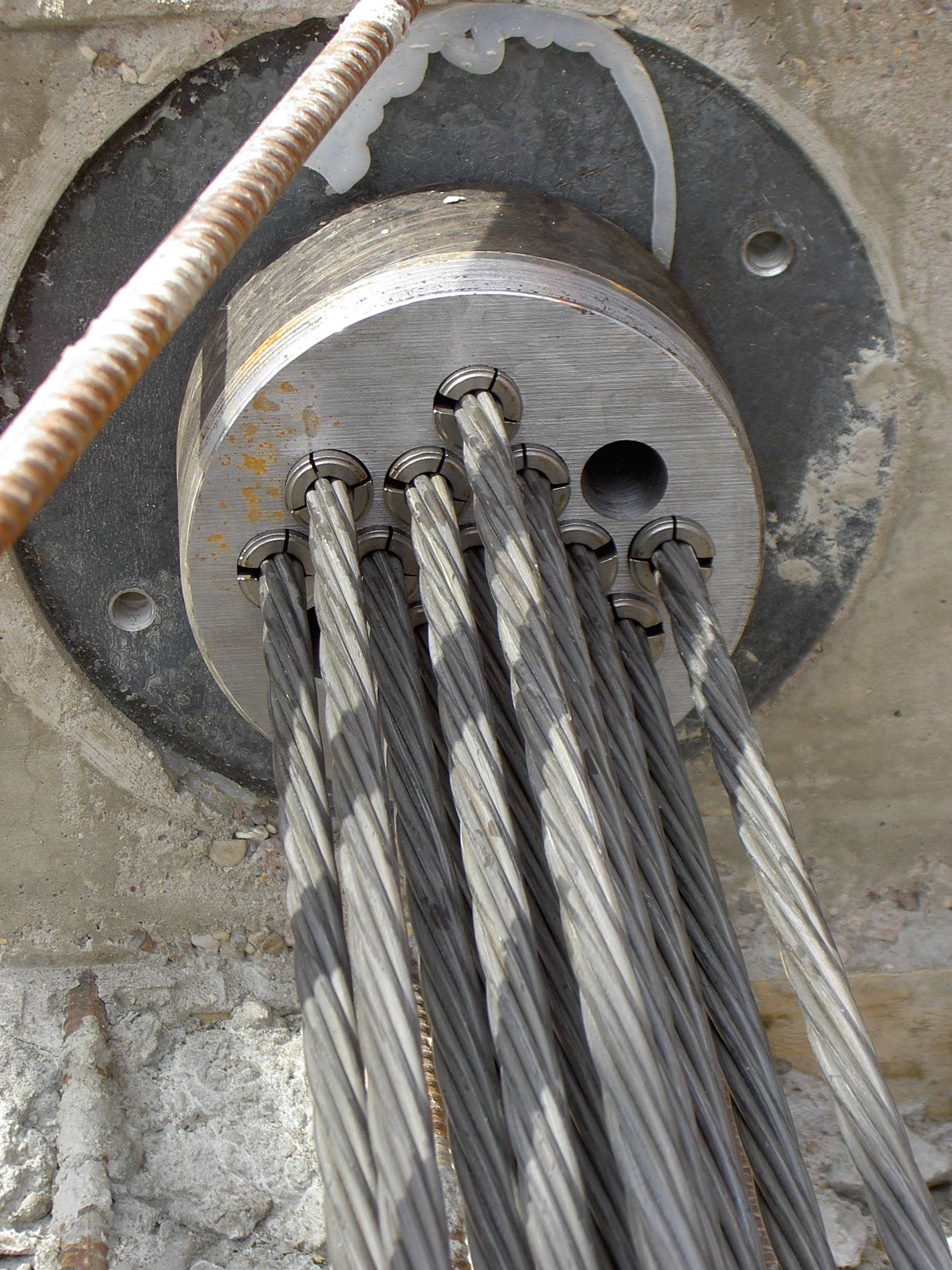 Stressing anchorage of Weidatalbridge